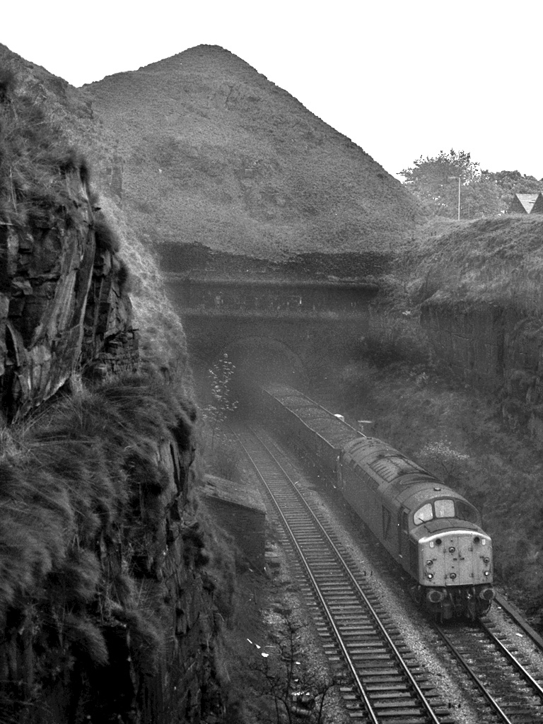 British Railways English Electric Type 4 1Co-Co1 class 40 diesel-electric locomotive number 40085 of Healey Mills TMD emerges from the 1 mile 1125 yard Summit Tunnel at Littleborough on the Up L&Y line with a mixed freight train. Wednesday 8th June 1983